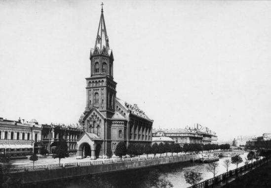 The German Reformed Church in St Petersburg (Russia). 19th-century photo (1890—1900)